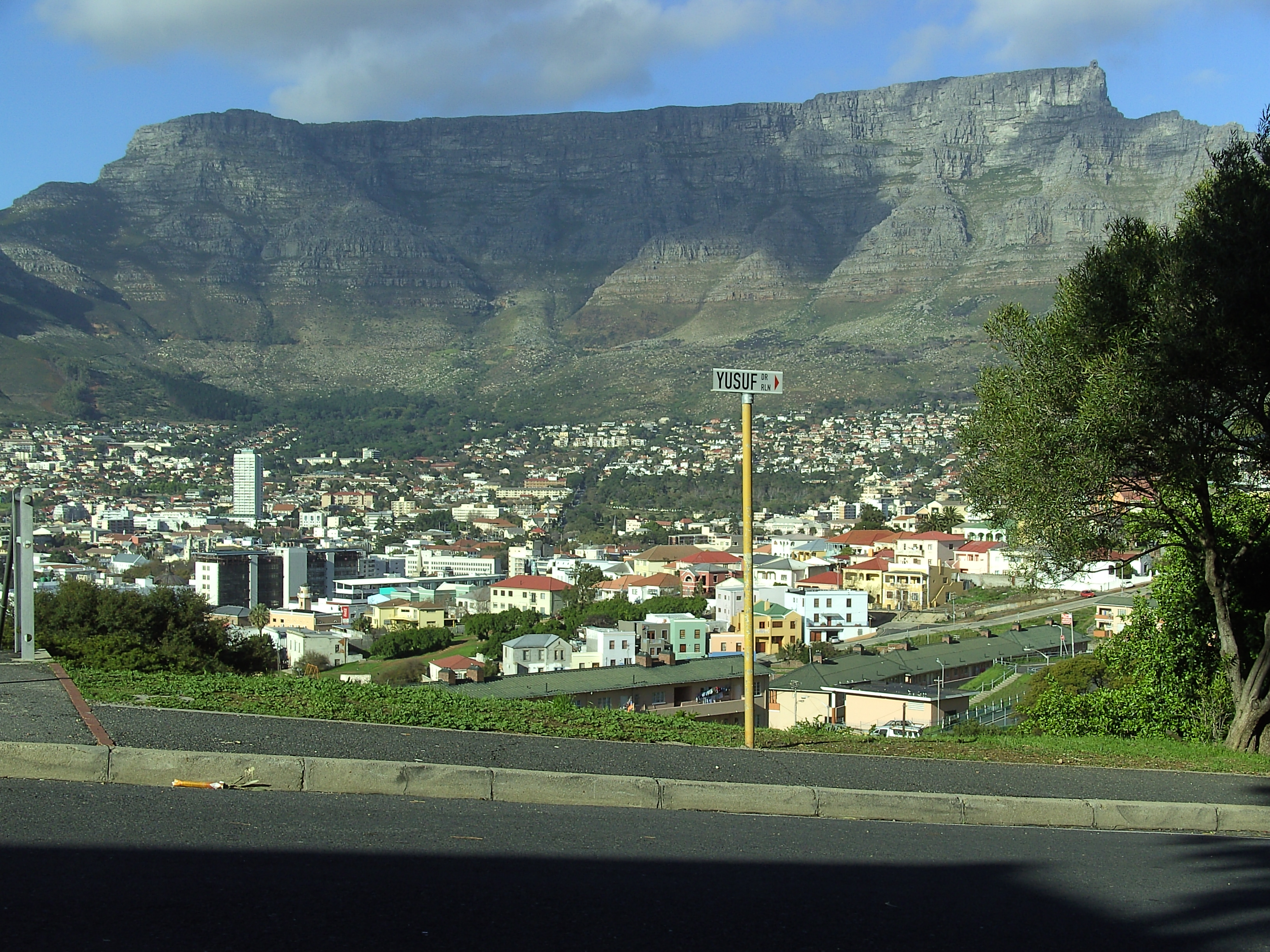 table mountain seen from cape town